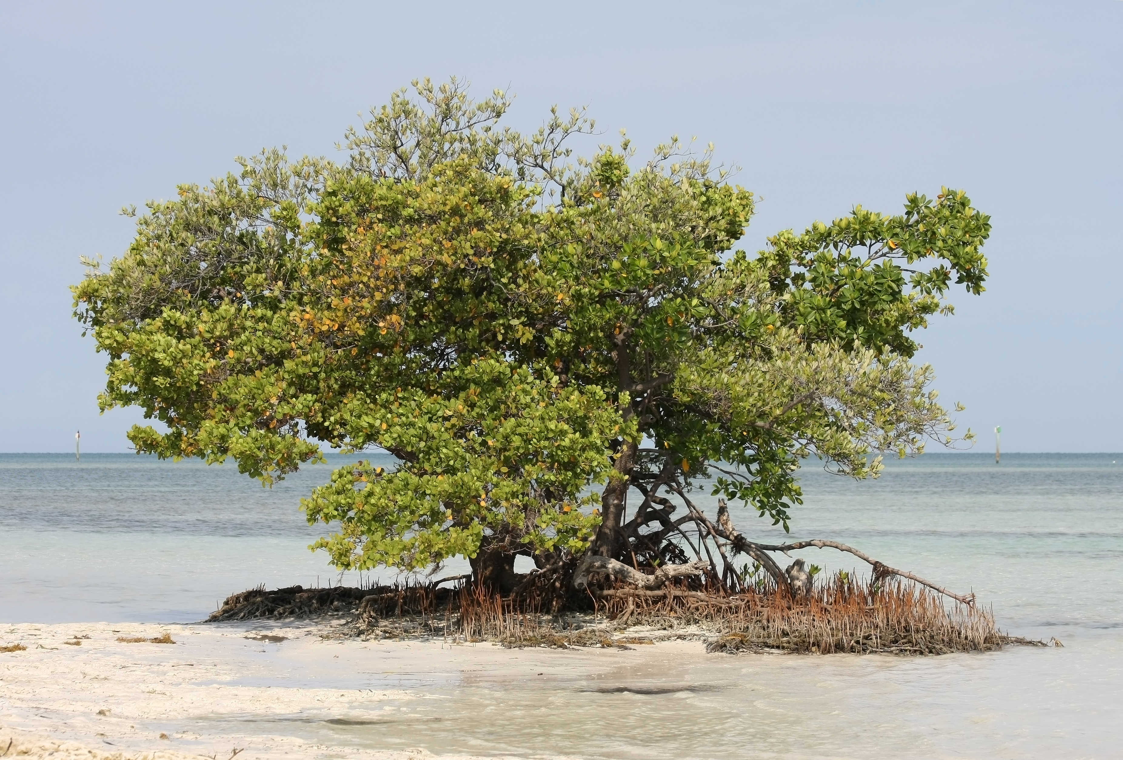 Black mangrove (lighter colored leaves, single trunk) and red mangrove (darker leaves, multiple trunks) near Islamorada, Florida.